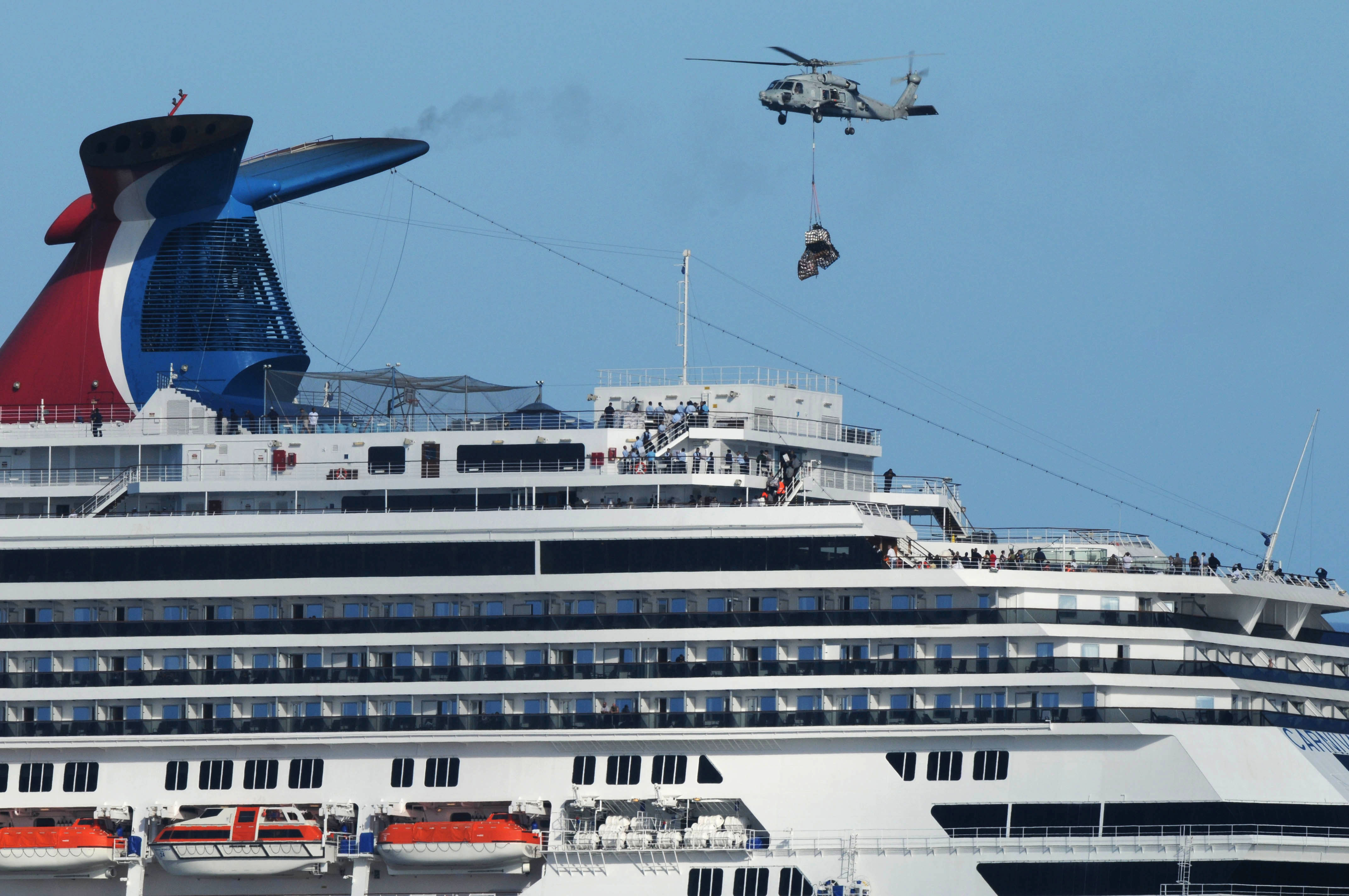 101109-N-5853P-198 PACIFIC OCEAN (Nov. 9, 2010) An HH-60H Sea Hawk helicopter from the Black Knights of Helicopter Anti-Submarine Squadron (HS) 4 embarked aboard the aircraft carrier USS Ronald Reagan (CVN 76) delivers pallets of supplies to the Carnival cruise ship C/V Splendor. Ronald Reagan was diverted from its training maneuvers at the direction of Commander, U.S. 3rd Fleet, and at the request of the U.S. Coast Guard, to a position near the Carnival cruise ship C/V Splendor. Ronald Reagan is facilitating the delivery of 4,500 pounds of supplies to CV Splendor after the cruise ship became stranded 150 nautical miles southwest of San Diego early Monday. (U.S. Navy photo by Mass Communication Specialist Seaman Mikesa R. Ponder/Released)